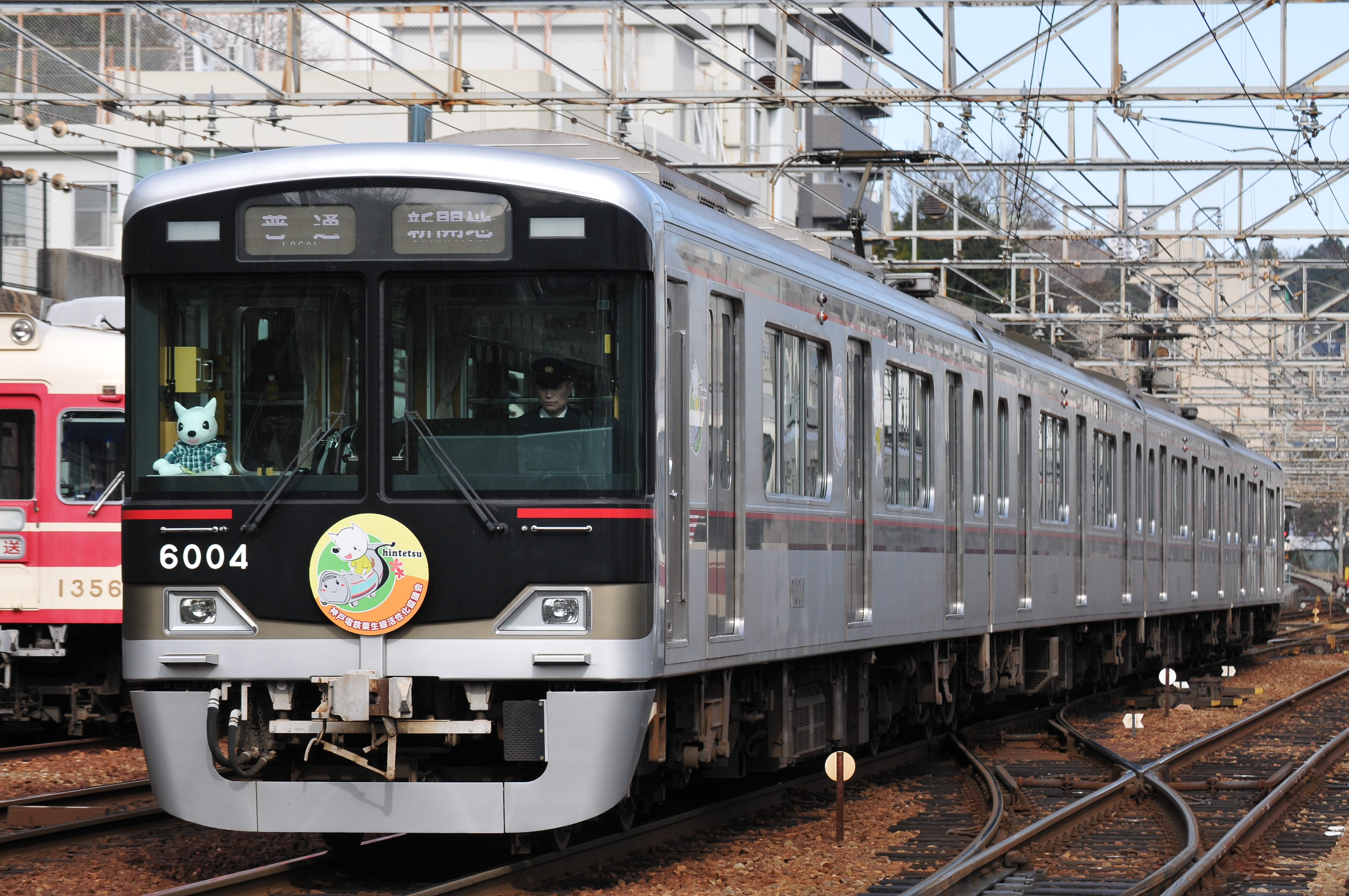 Shintetsu 6000 series EMU set 6003